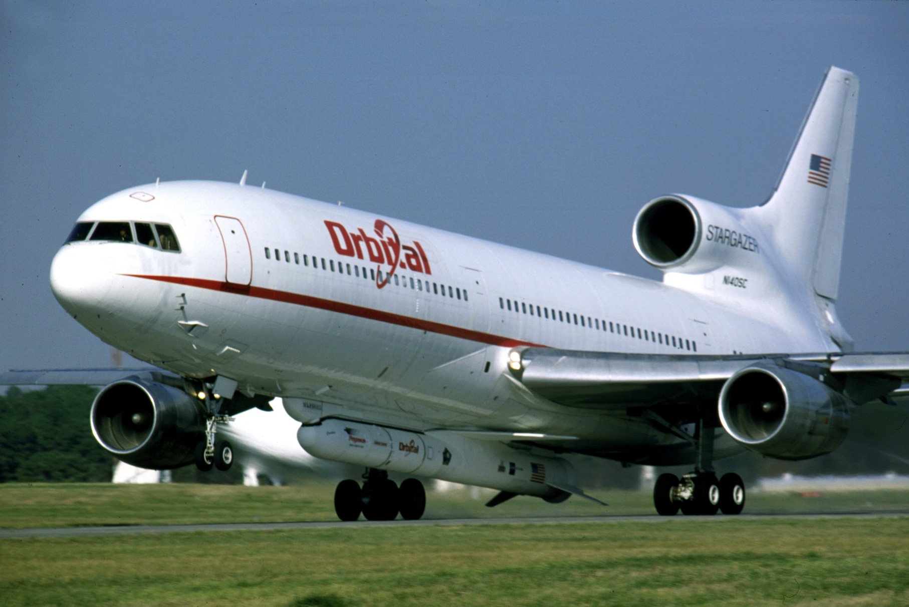 Orbital Sciences Stargazer taking off as part of the mission to launch the IRIS satellite. Note the Pegasus XL carrying IRIS mounted to the aircraft's belly, which is to be launched once the aircraft reaches cruising altitude.